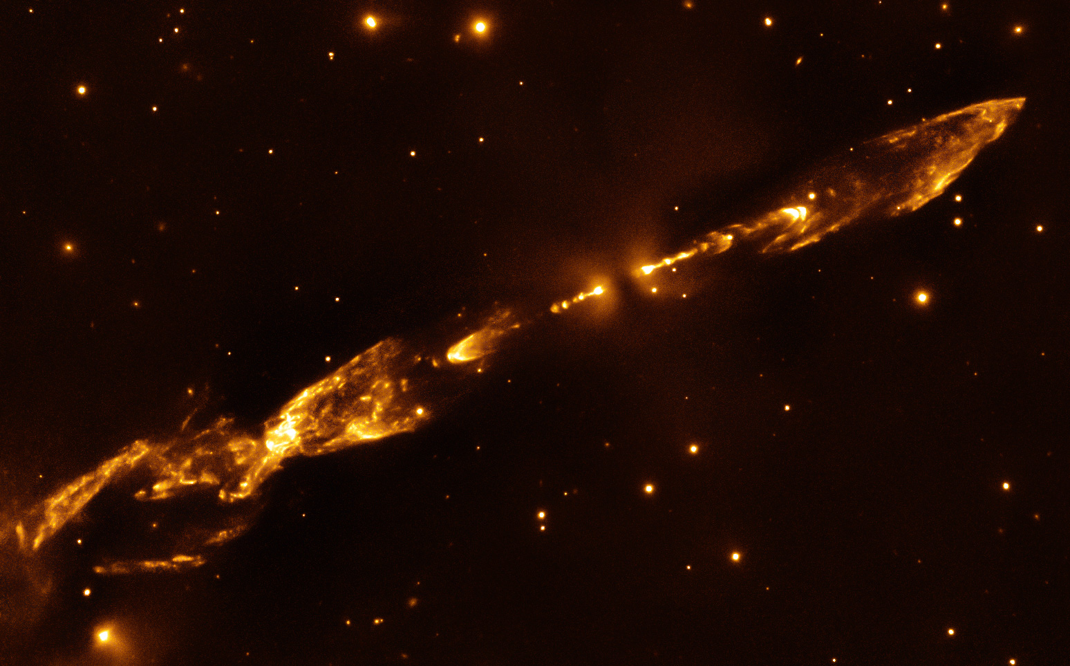 A pair of jets protrude outwards in near-perfect symmetry in this image of Herbig-Haro object (HH) 212, taken by ESO’s already decommissioned Infrared Spectrometer And Array Camera (ISAAC). The object lies in the constellation of Orion (The Hunter) in a dense molecular star-forming region, not far from the famous Horsehead Nebula. In regions like this, clouds of dust and gas collapse under the force of gravity, spinning faster and faster and becoming hotter and hotter until a young star ignites at the cloud’s centre. Any leftover material swirling around the newborn protostar comes together to form an accretion disc that will, under the right circumstances, eventually evolve to form the base material for the creation of planets, asteroids and comets. Although this process is still not fully understood, it is common that a protostar and its accretion disc, as seen here edge-on, are the cause of the jets in this image. The star at the centre of HH 212 is indeed a very young star, at only a few thousand years old. Its jets are remarkably symmetric, with several knots appearing at relatively stable intervals. This stability suggests that the jet pulses vary quite regularly, and over a short timescale — maybe even as short as 30 years! Further out from the centre, large bow shocks spread out into interstellar space, caused by ejected gas colliding with dust and gas at speeds of several hundred kilometres per second.